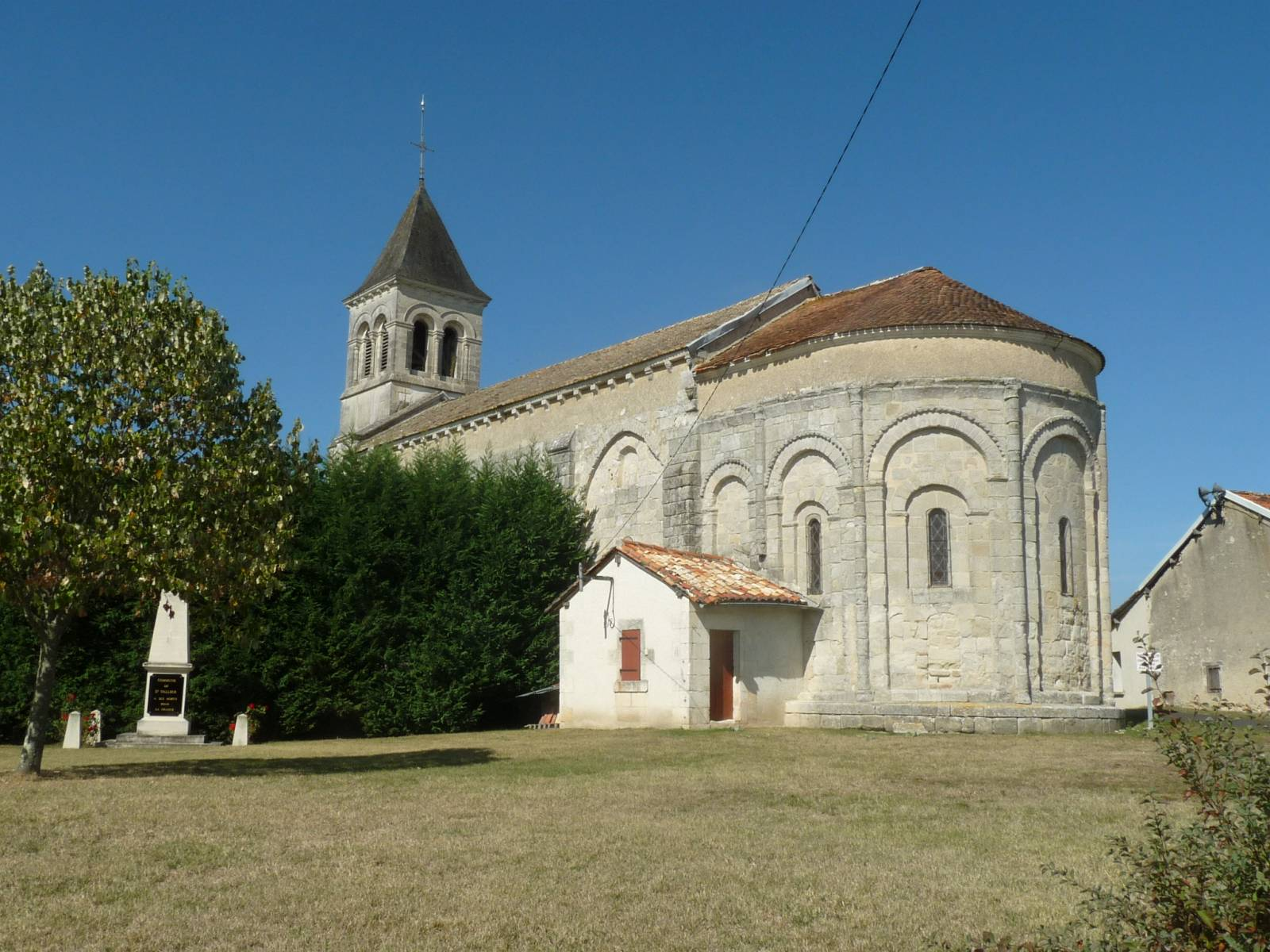 church